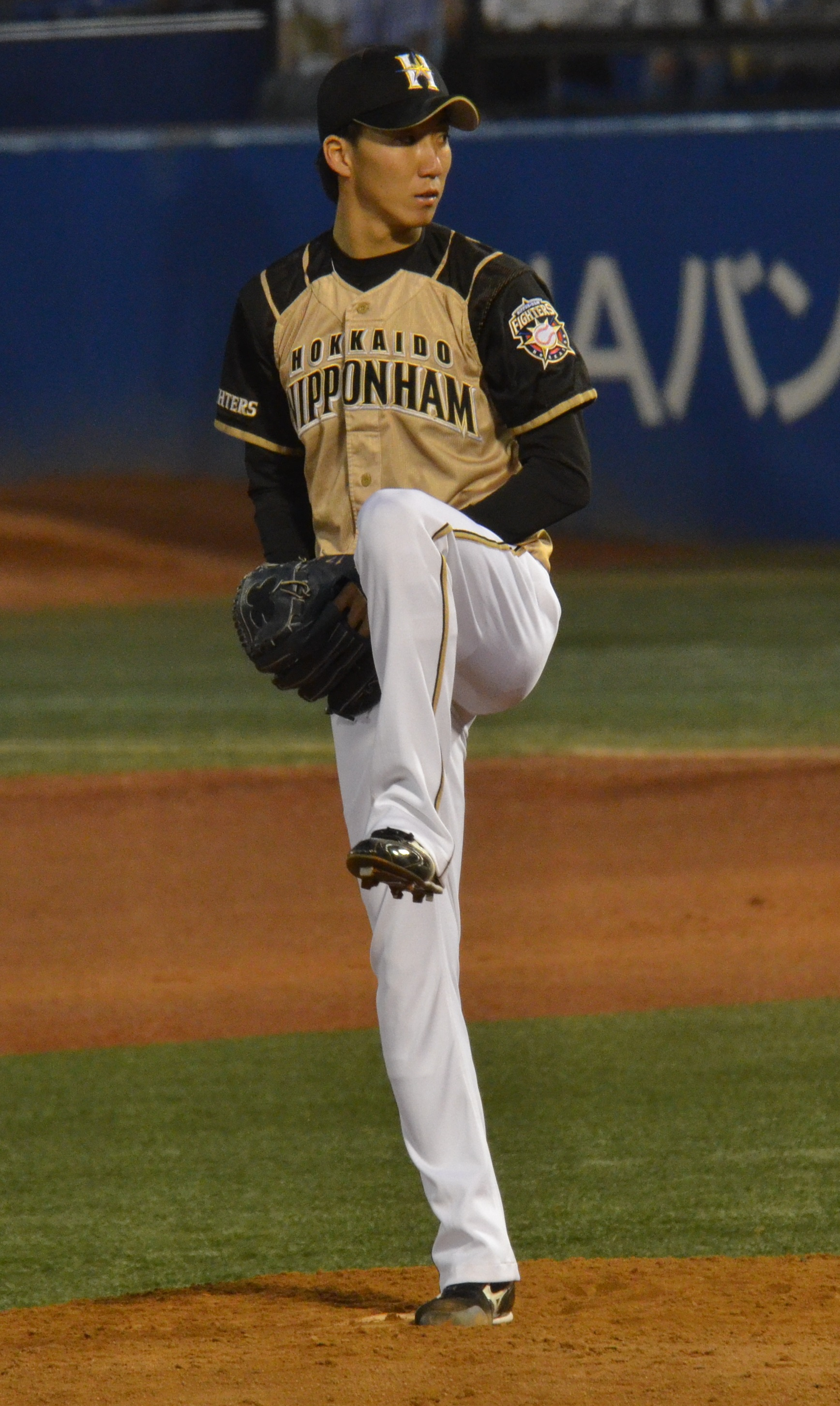 Hiroshi Urano, pitcher of the Hokkaido Nippon-Ham Fighters, at Meiji Jingu Stadium.